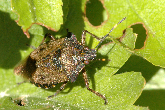 Picture taken in Commanster, Belgian High Ardennes . Species: Troilus luridus